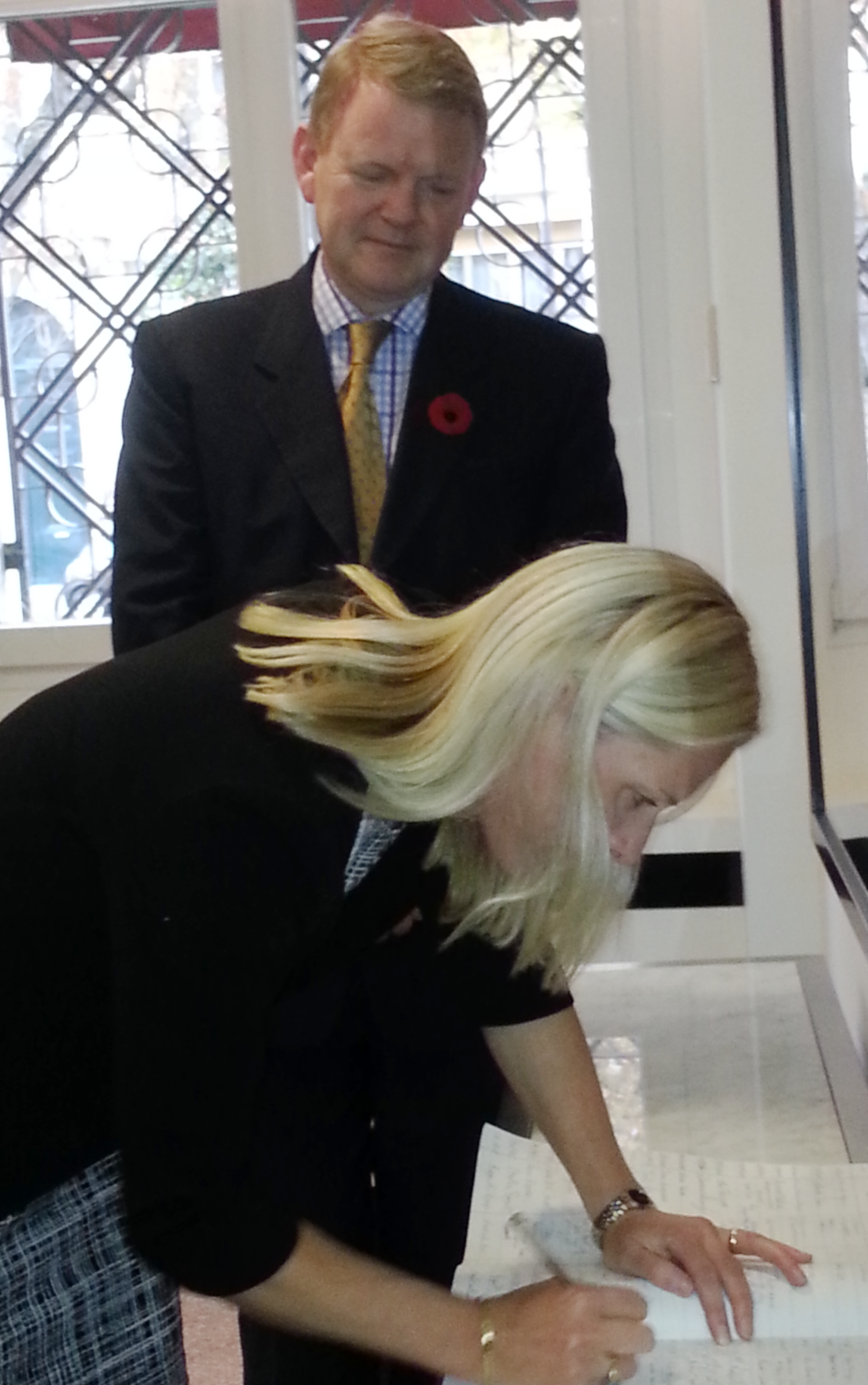 Minister McKenna signs the Embassy of Canada in Paris Registry, alongside the Graeme Clark, Plenipotentiary Minister, Canadian Embassy, Paris.